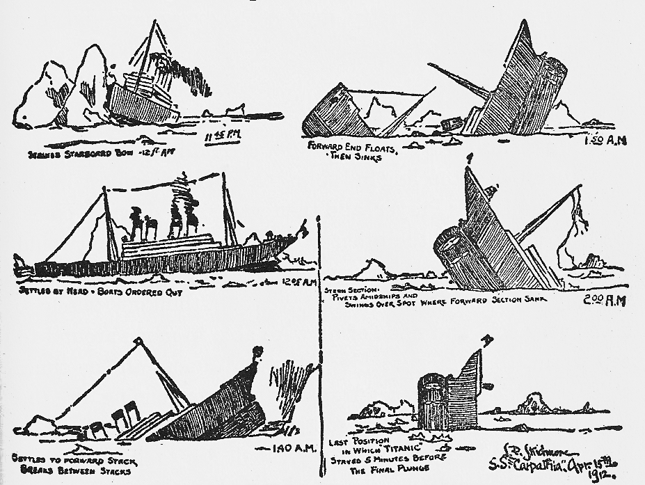 Jack Thayers description of the sinking of RMS Titanic. Caption: Top-left: Strikes starboard bow - 12 ft. AW. 11:45 PM.Middle-left: Settles by head - boats ordered out. 12:05 AM.Bottom left: Settles to forward stacks. Breaks between stacks. 1:40 AM.Top-right: Forward end floats, then sinks. 1:50 AM.Middle-right: Stern section pivots amidships and swings over spot where forward section sank. 2:00 AM.Bottom-right: Last position in which Titanic stayed 5 min. before the final plunge.